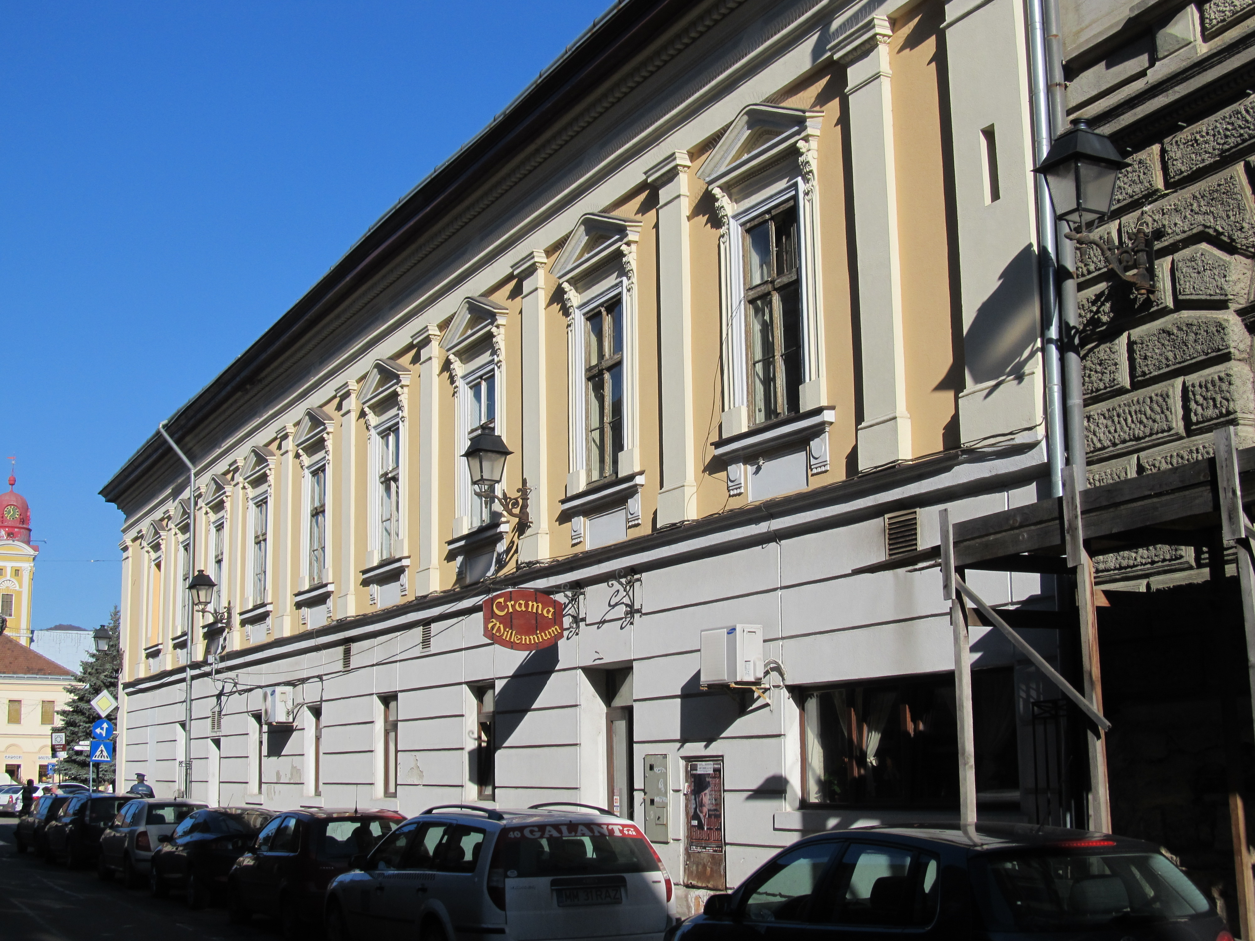 Degenfeld house in Baia Mare, Maramureș county, Romania.